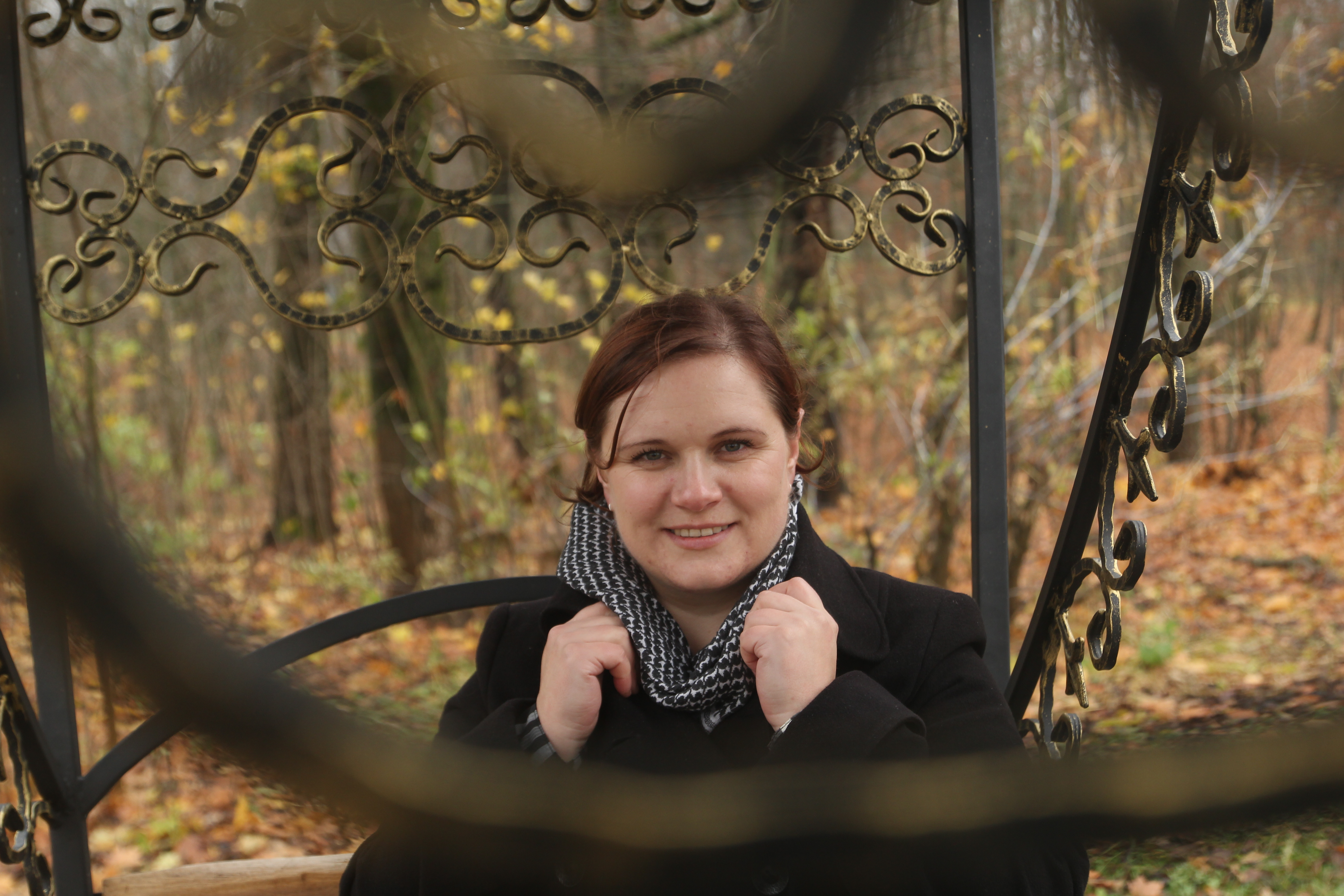 Славгород2018